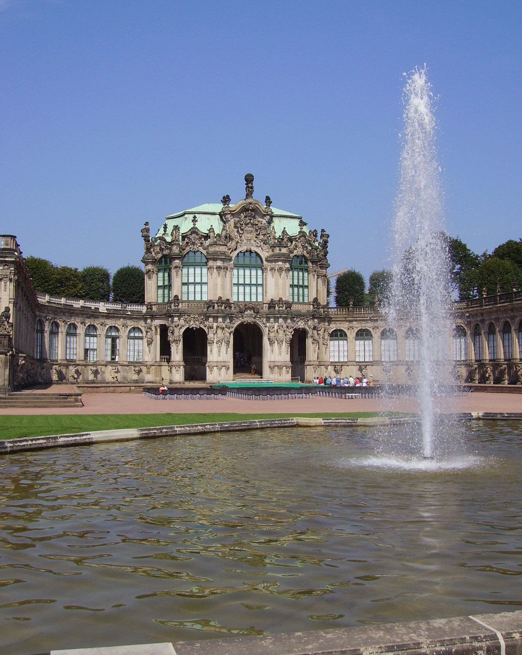 Zwinger in Dresden, Germany